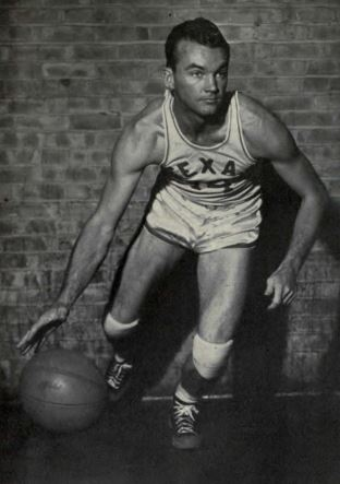 University of Texas basketball player Danny Wagner from the 1947 "Cactus" yearbook.